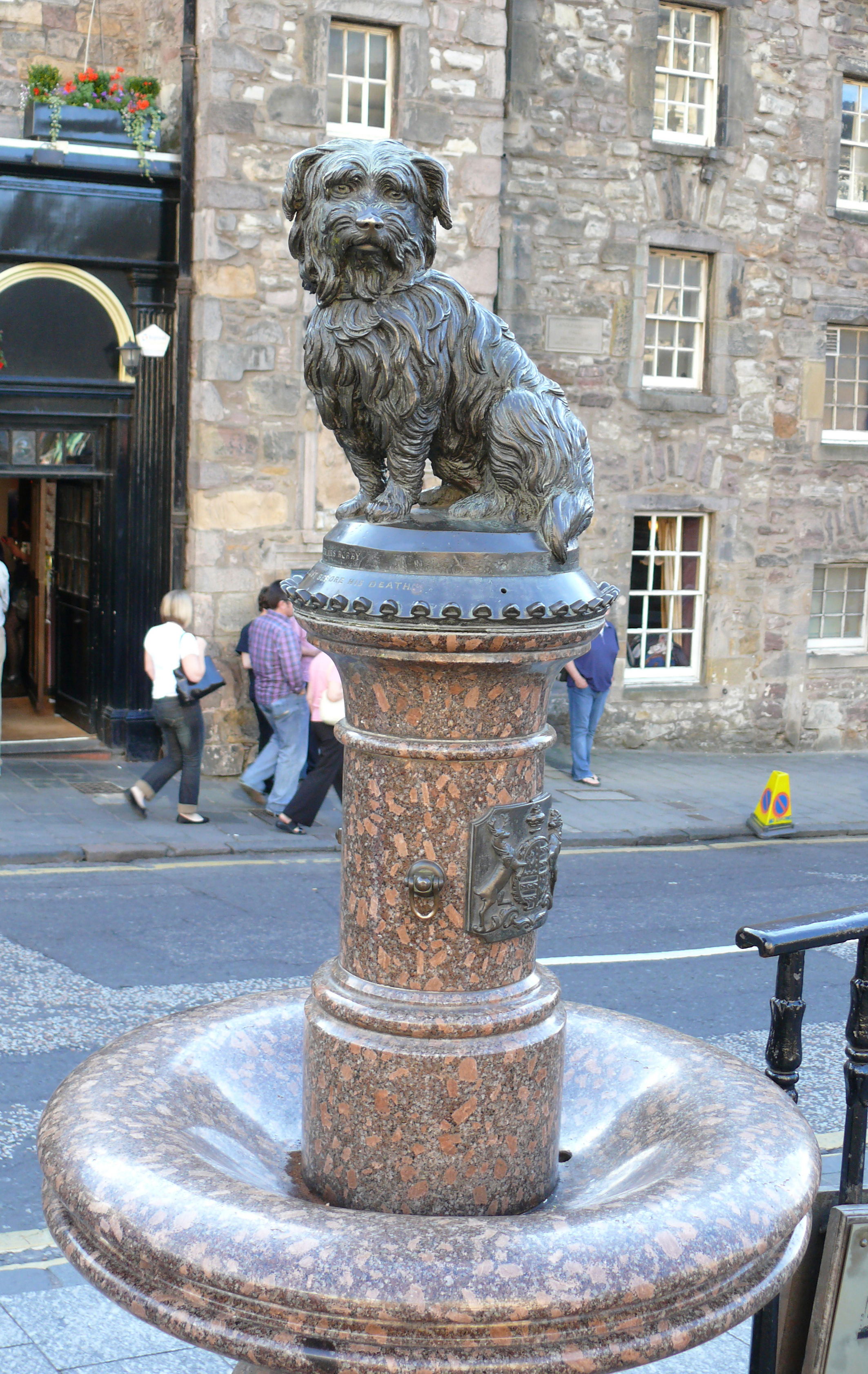 In 1873 Lady Burdett-Coutts commissioned a statue and fountain which was erected at the southern end of the George IV Bridge to commemorate Greyfriars Bobby. Bobby was a Skye Terrier who reportedly spent 14 years guarding the grave of his owner, John Gray, until he died himself on 14 January 1872.